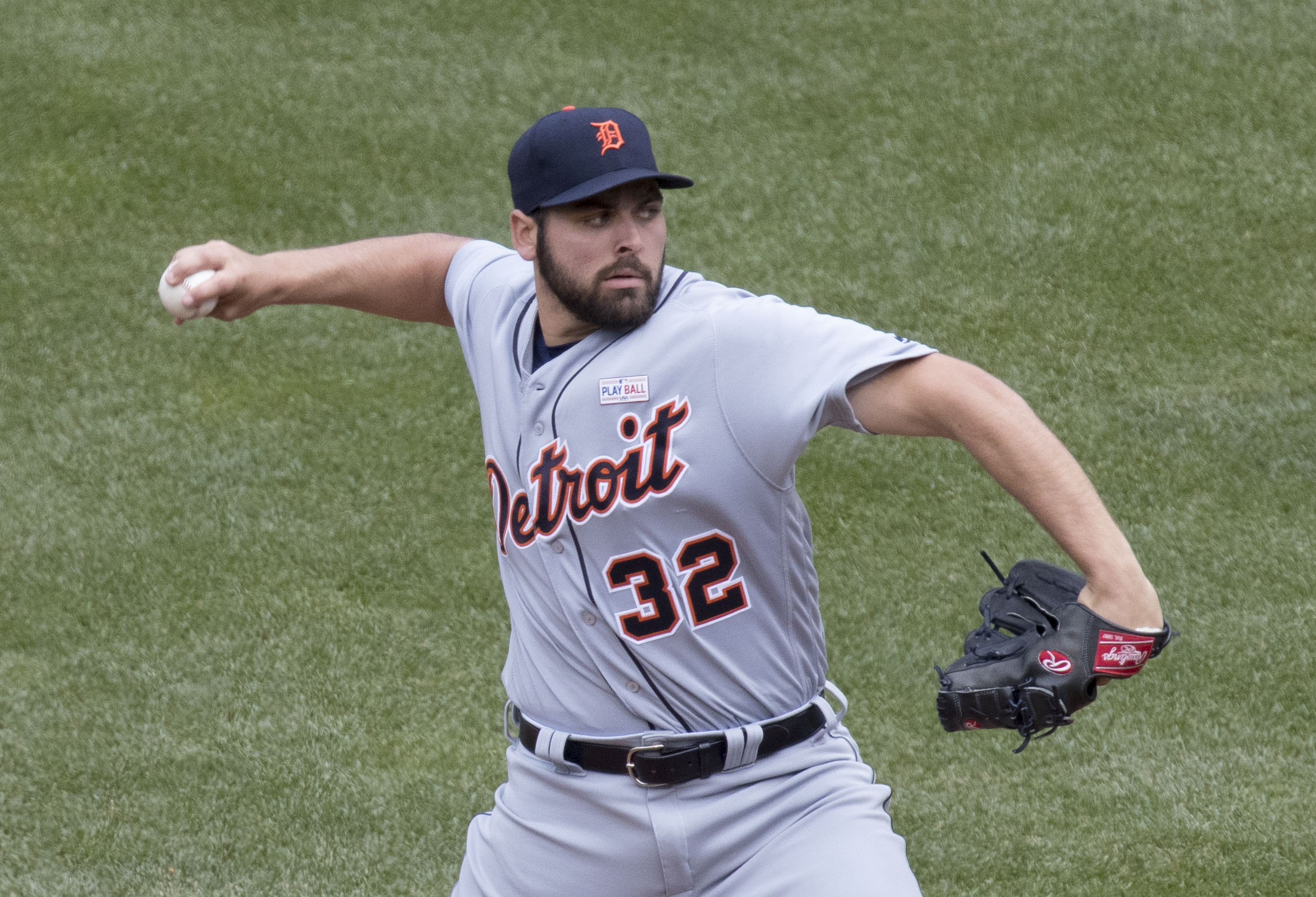 Michael Fulmer pitching at Camden Yards in Baltimore in 2016.